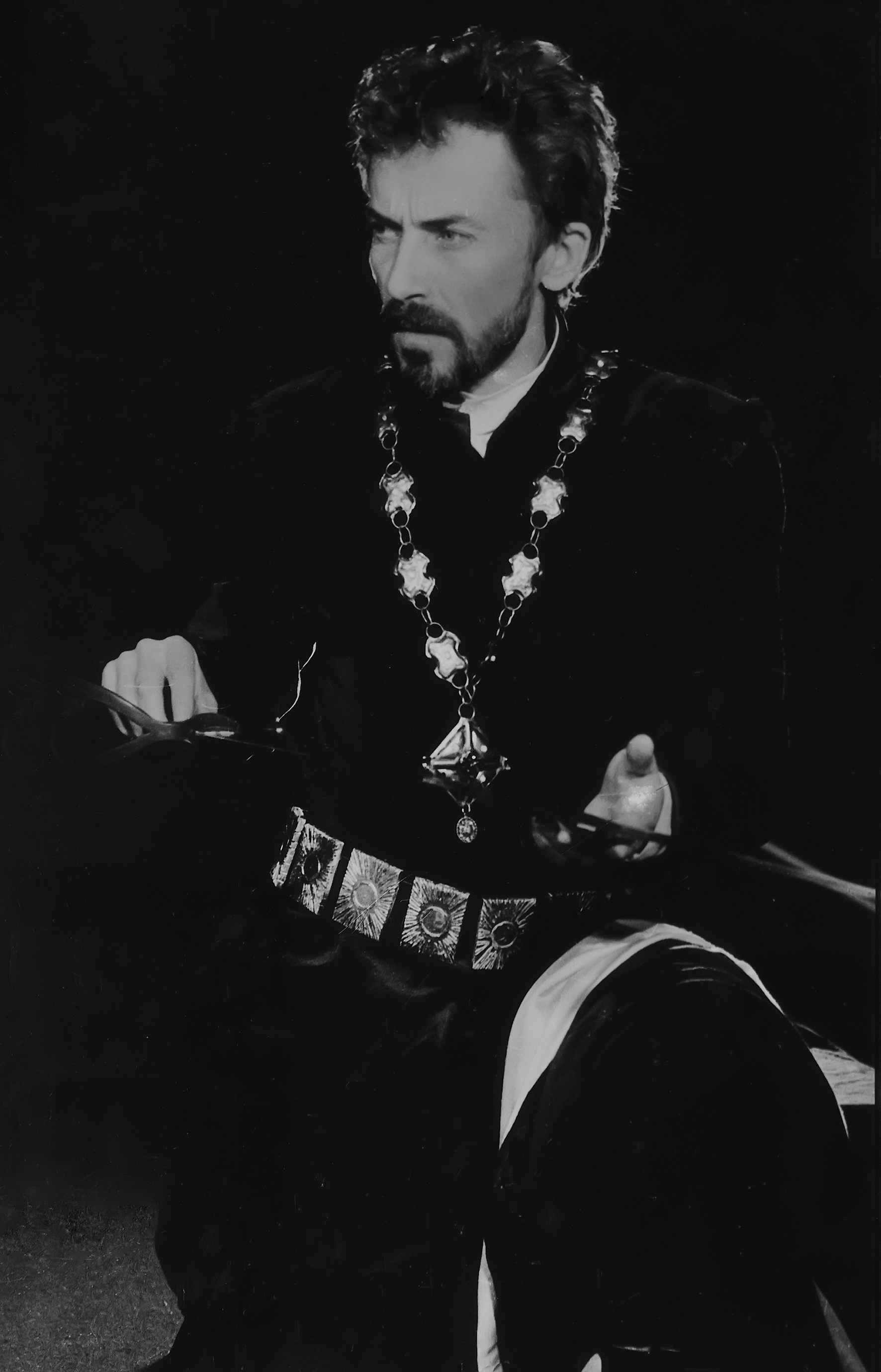 Oleh Mosiychuk